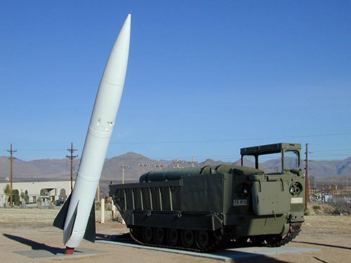 A surface-to-surface missile capable of carrying either a nuclear or conventional warhead.